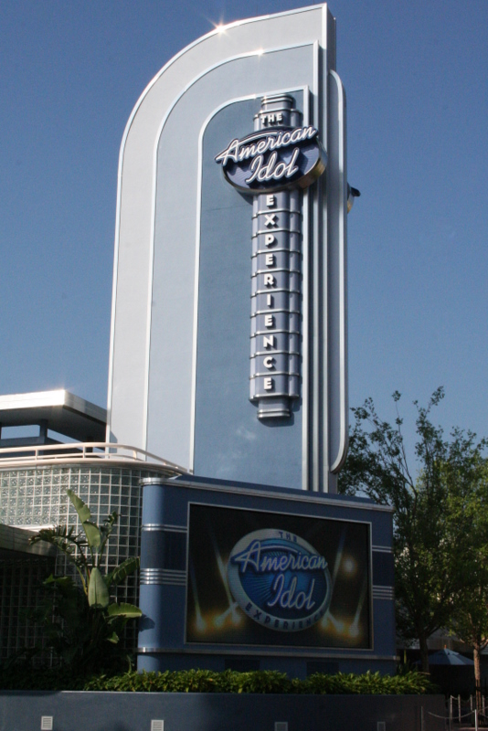 Facade of The American Idol Experience attraction at Disney Hollywood Studios at Walt Disney World